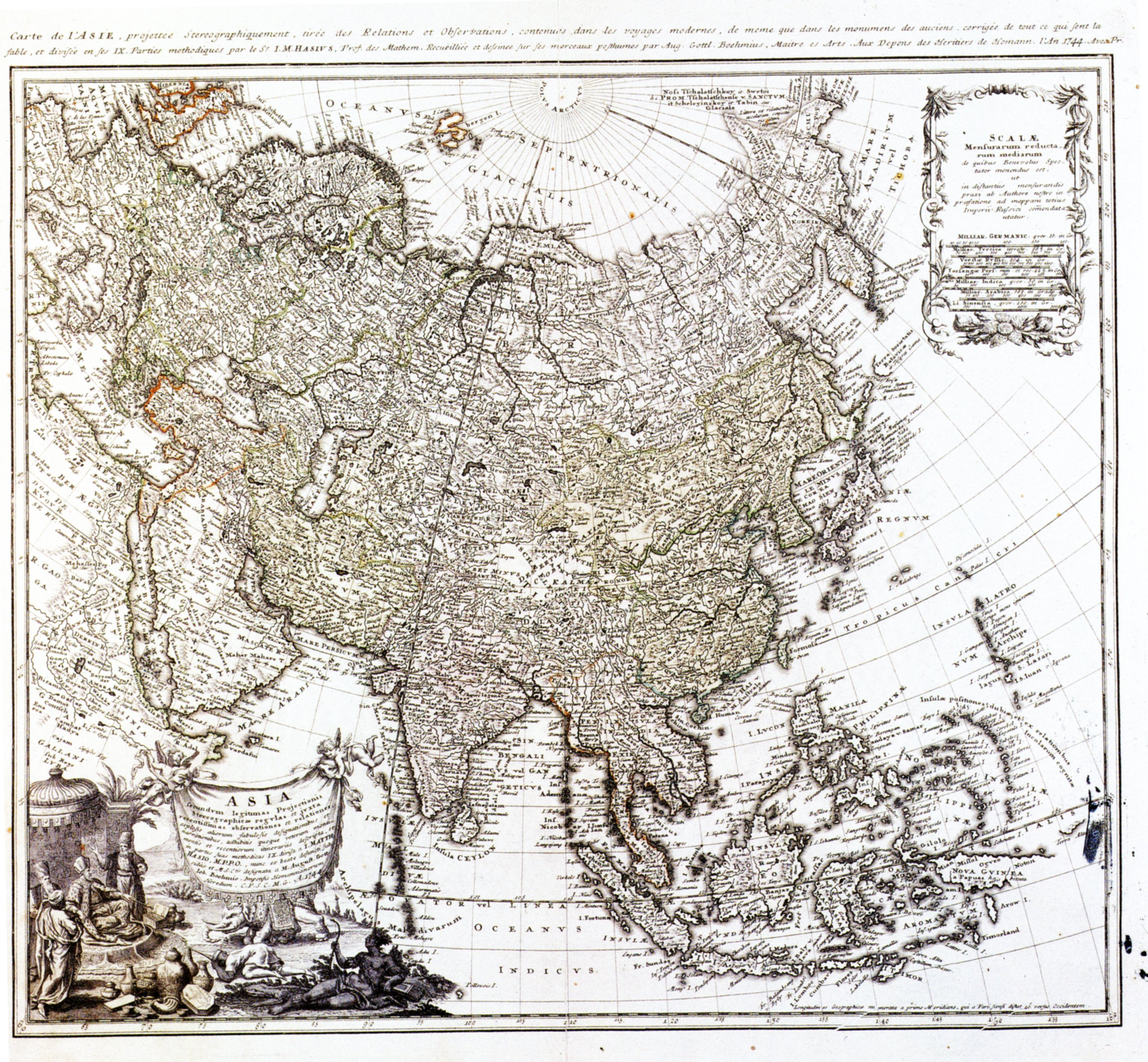 Map of Asia by Johann Matthias Hass published after his death by Homannian Heirs. 48.5 cm x 53 cm. Located in the National Palace Museum, Taipei.